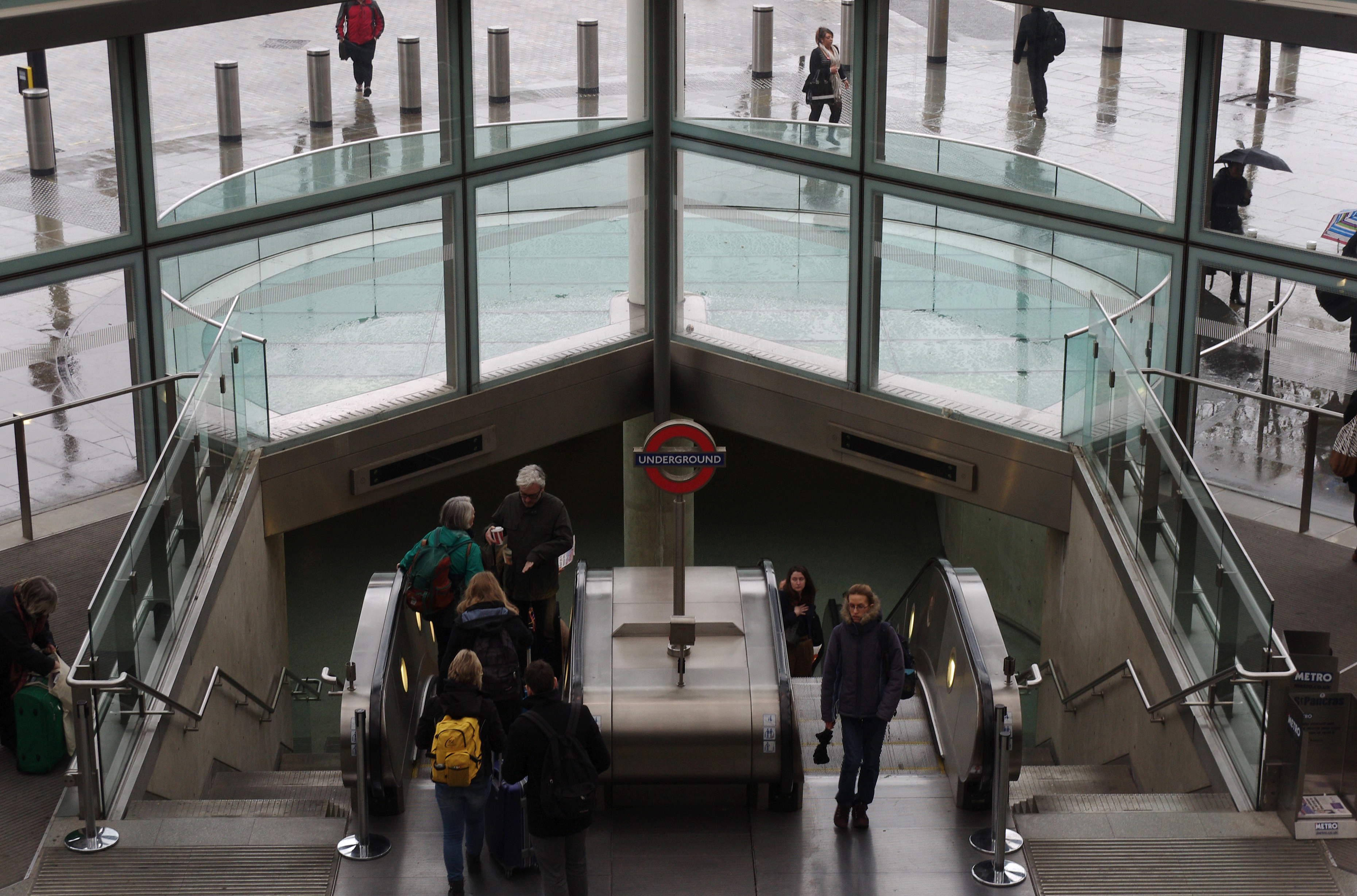 Looking down the escalators to King's Cross St Pancras tube station from the High Speed Domestic platforms.